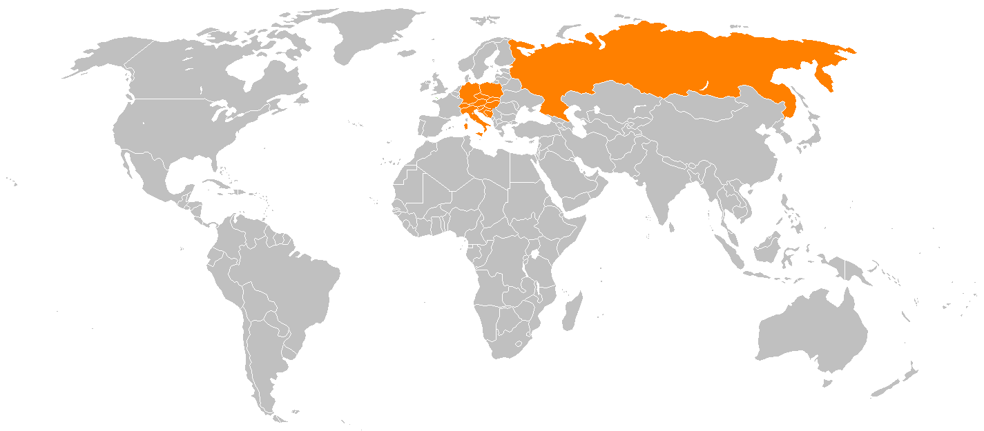 A map of countries with OBI hypermarkets. grey: no shop in this country orange: there are shops in this country grey-orange: shops in this country will become opened soon